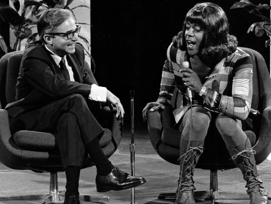 Publicity photo of Flip Wilson as Geraldine Jones from the television program The Flip Wilson Show. Geraldine is interviewing Dr. David Reuben.